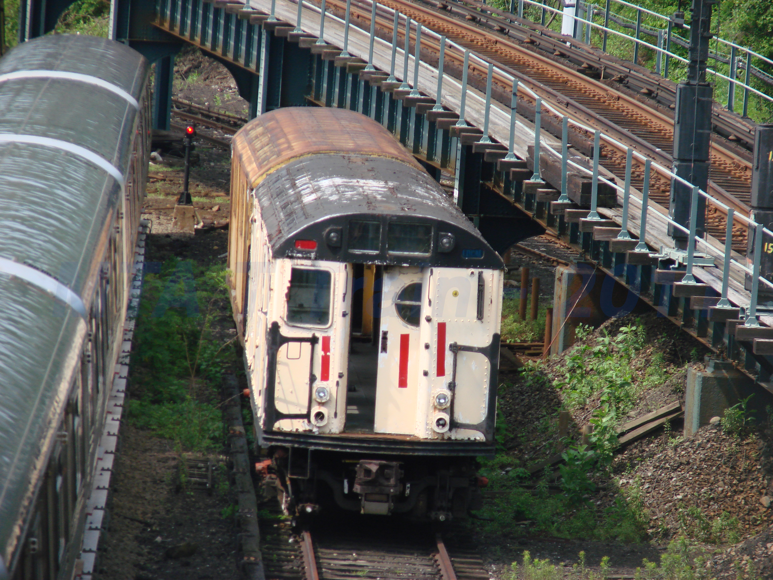 MTA NYC Subway R17 6895 (36895) at the Concourse Yard.